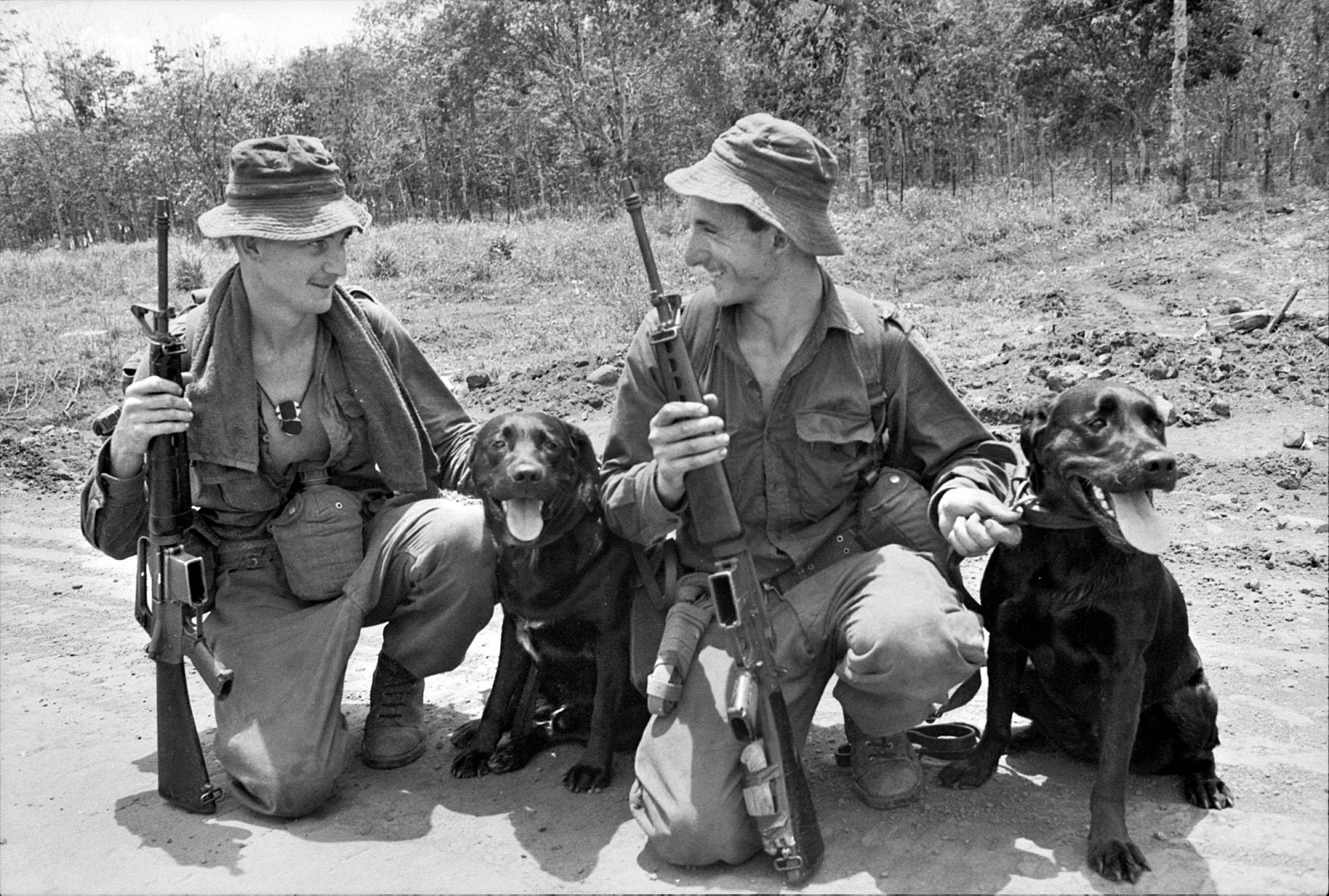 Two black Labrador dogs which had a lot of sniffing to do during Operation Lismore that was completed by 7th Battalion, The Royal Australian Regiment (7RAR). The dog handlers are 19983 Private (later Lance Corporal (L Cpl)) Thomas Douglas (Tom) Blackhurst of Swansea, NSW (left), with Justin and 43921 L Cpl Norman Leslie (Norm) Cameron of Kingston, SA, (right) with Cassius. The dogs were responsible for locating Viet Cong fighters and some enemy installations. L Cpl Blackhurst was killed in action on 17 April 1971 while serving with the Australian Army Training Team Vietnam. He was a radio operator, calling in helicopter of 9 Squadron RAAF for a medical evacuation. The helicopter crashed, killing L Cpl Blackhurst and 3170244 L Cpl John Francis Gillespie of 8 Field Ambulance, the medic on board.